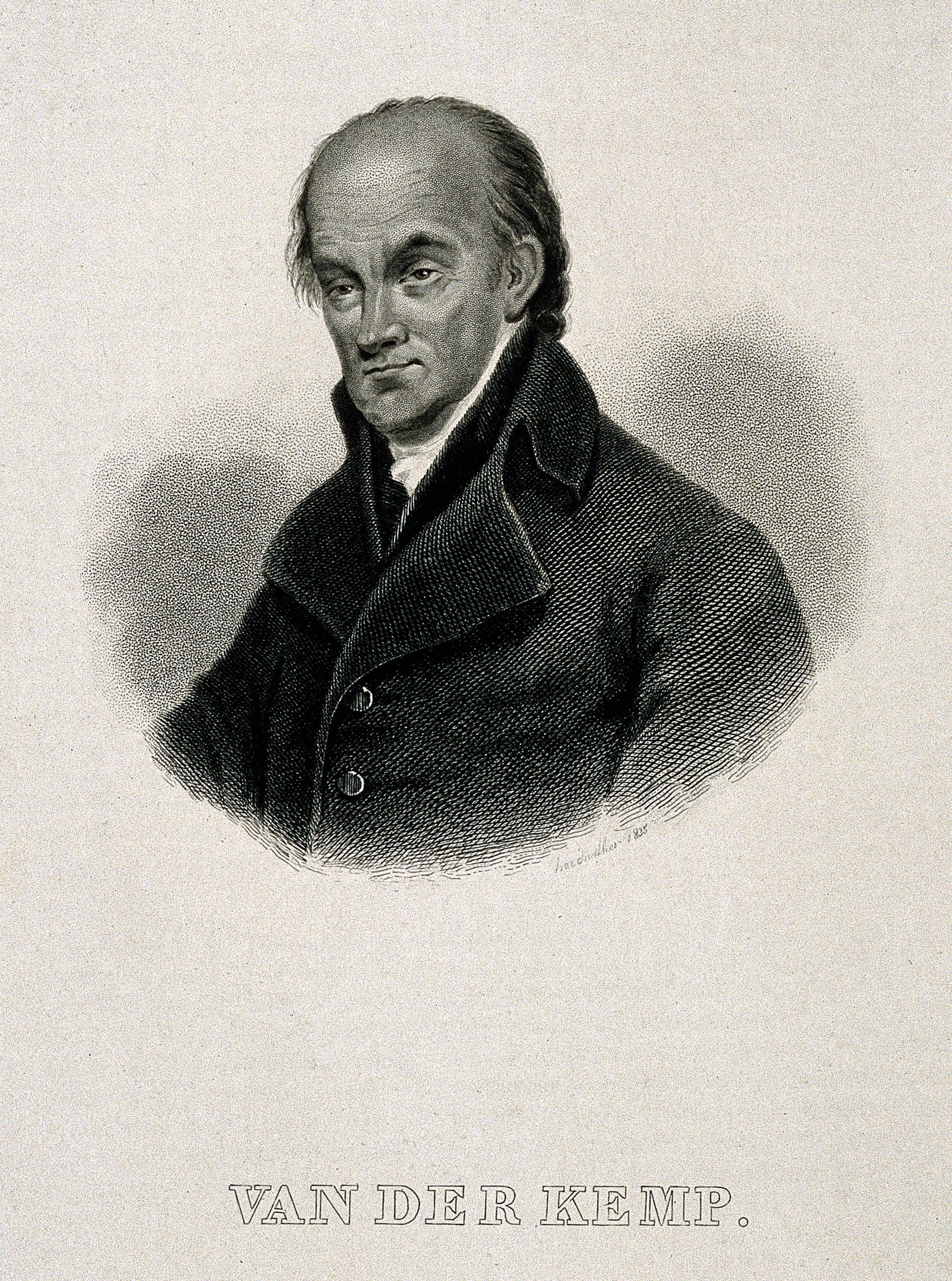 Johannes Theodorus van der Kemp. Engraving by C. A. Hardivillier, 1835. Iconographic Collections Keywords: intaglio prints; portrait prints; Johannes Theodorus van der Kemp